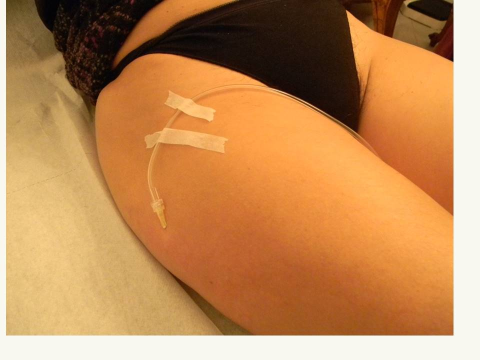 carboxytherapy